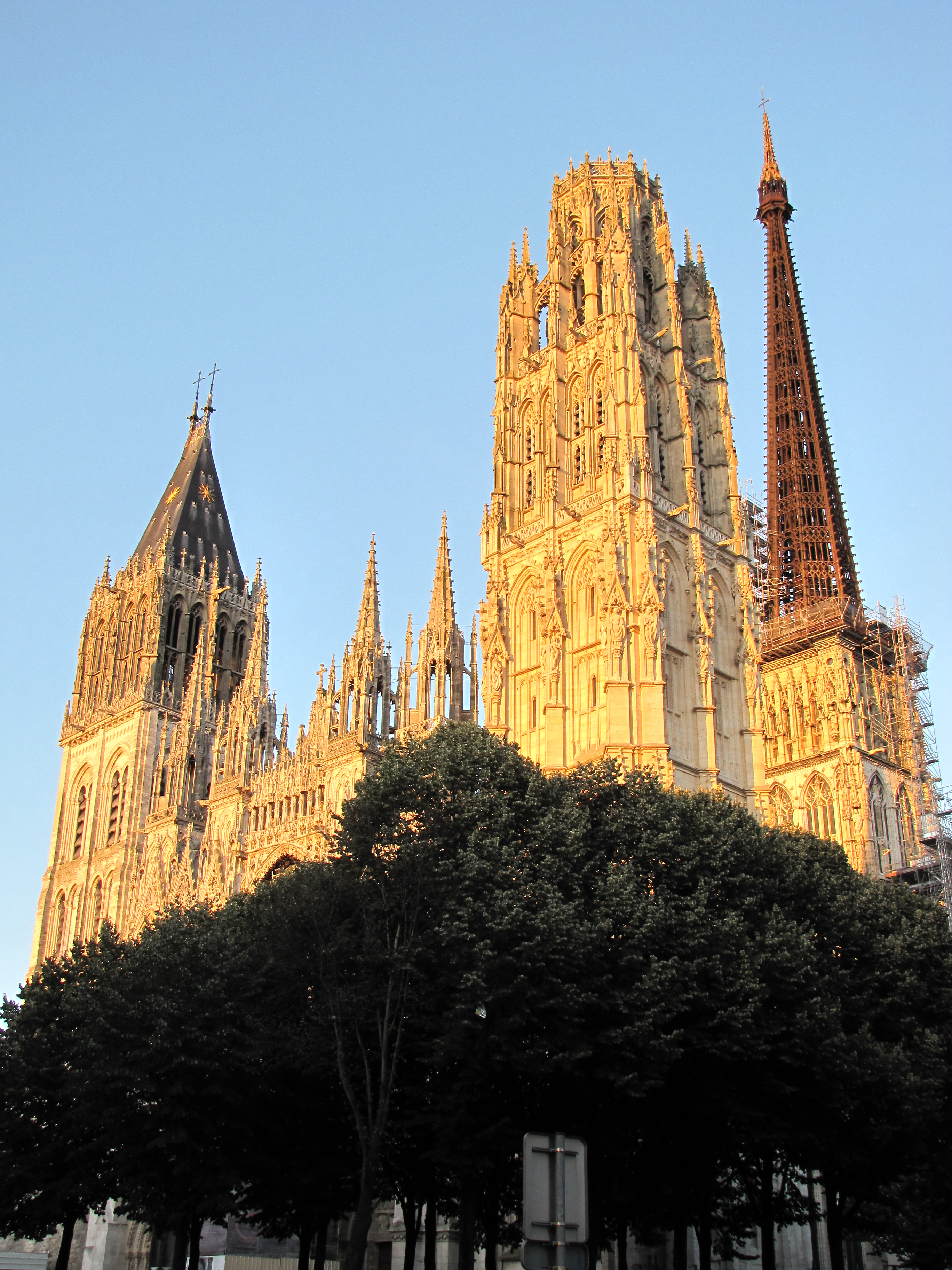 Rouen Cathedral at sunset in August 2011